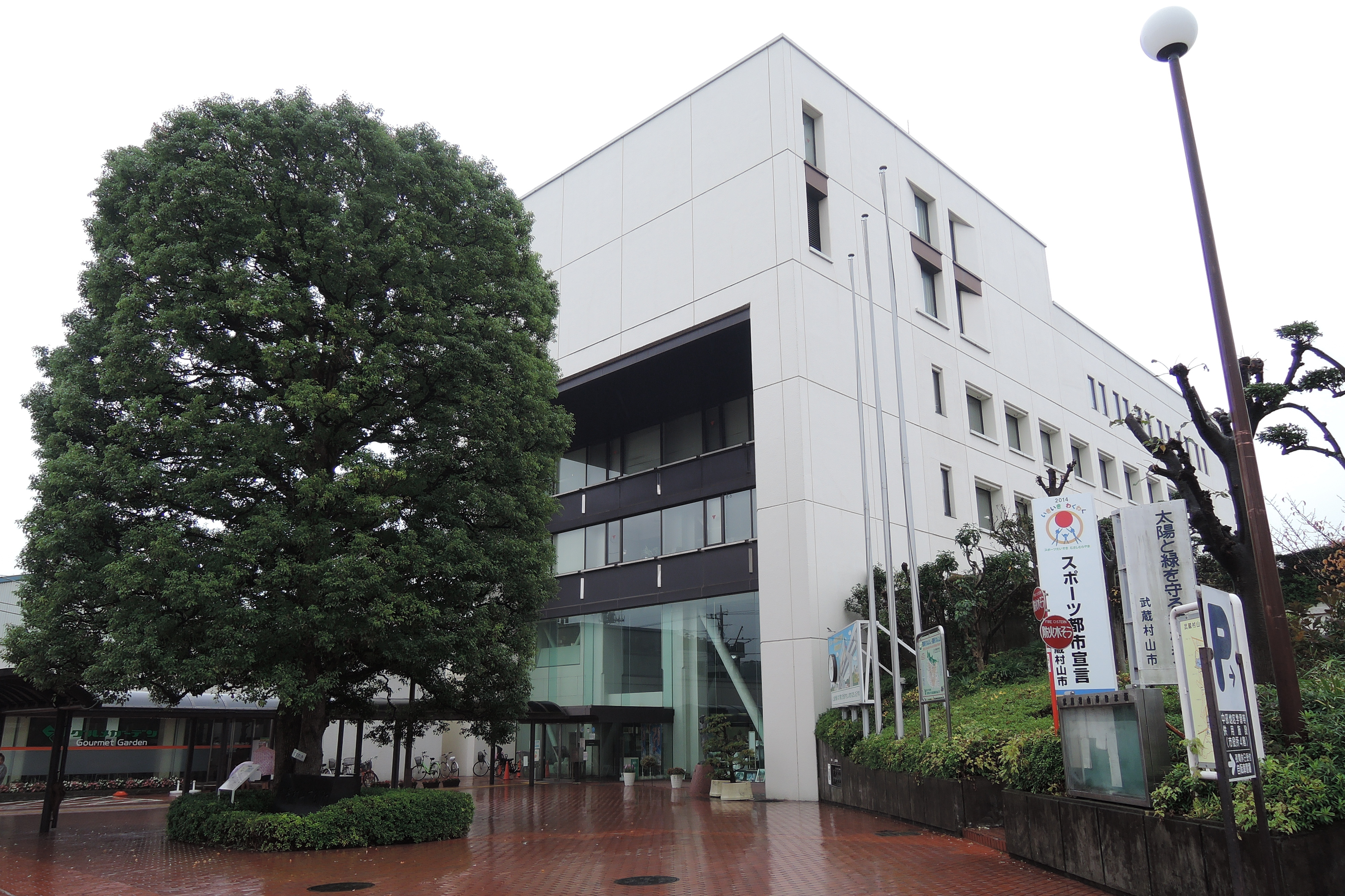 Musashimurayama city hall,Tokyo Metoropolis,Japan